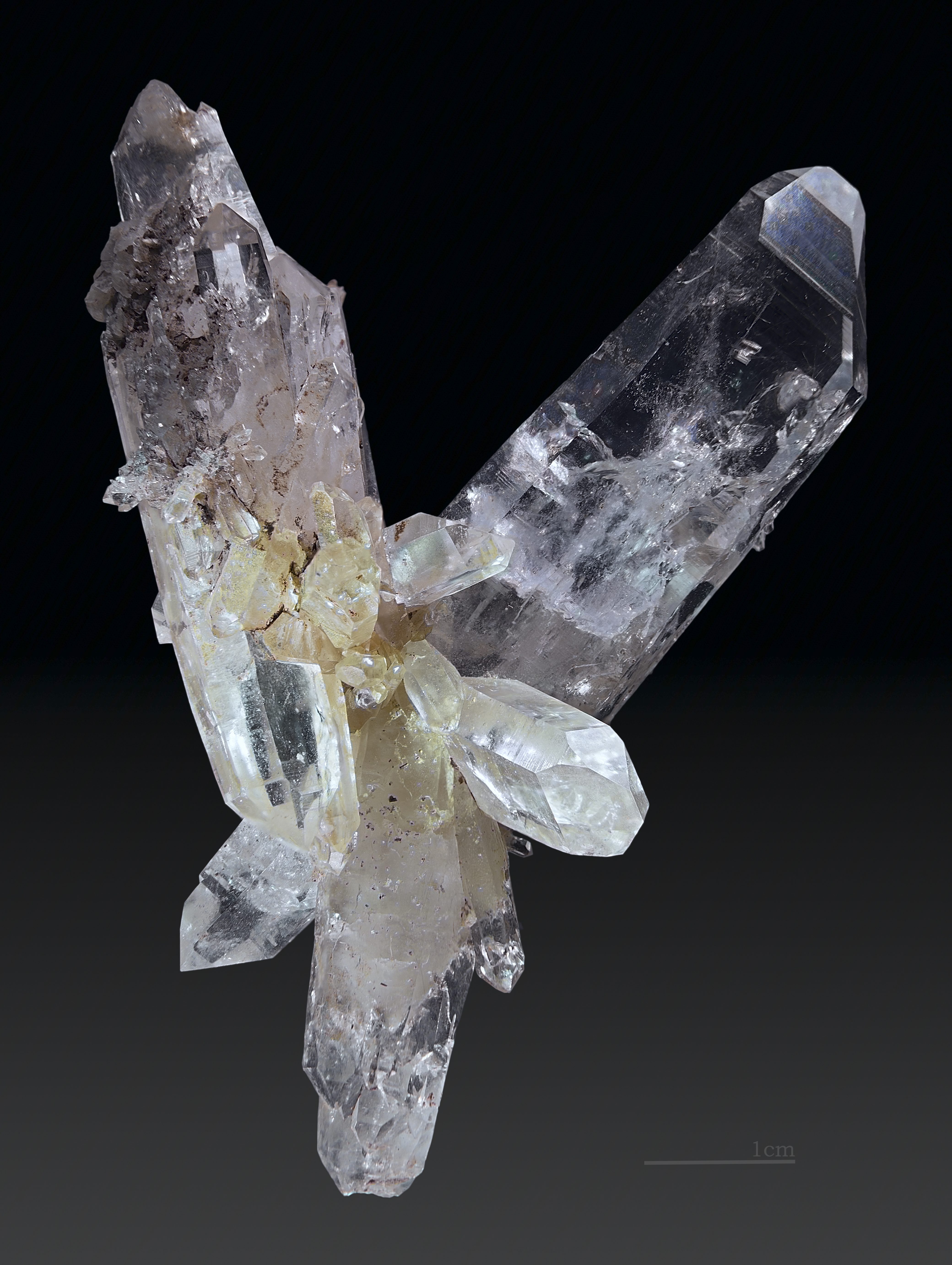 Quartz